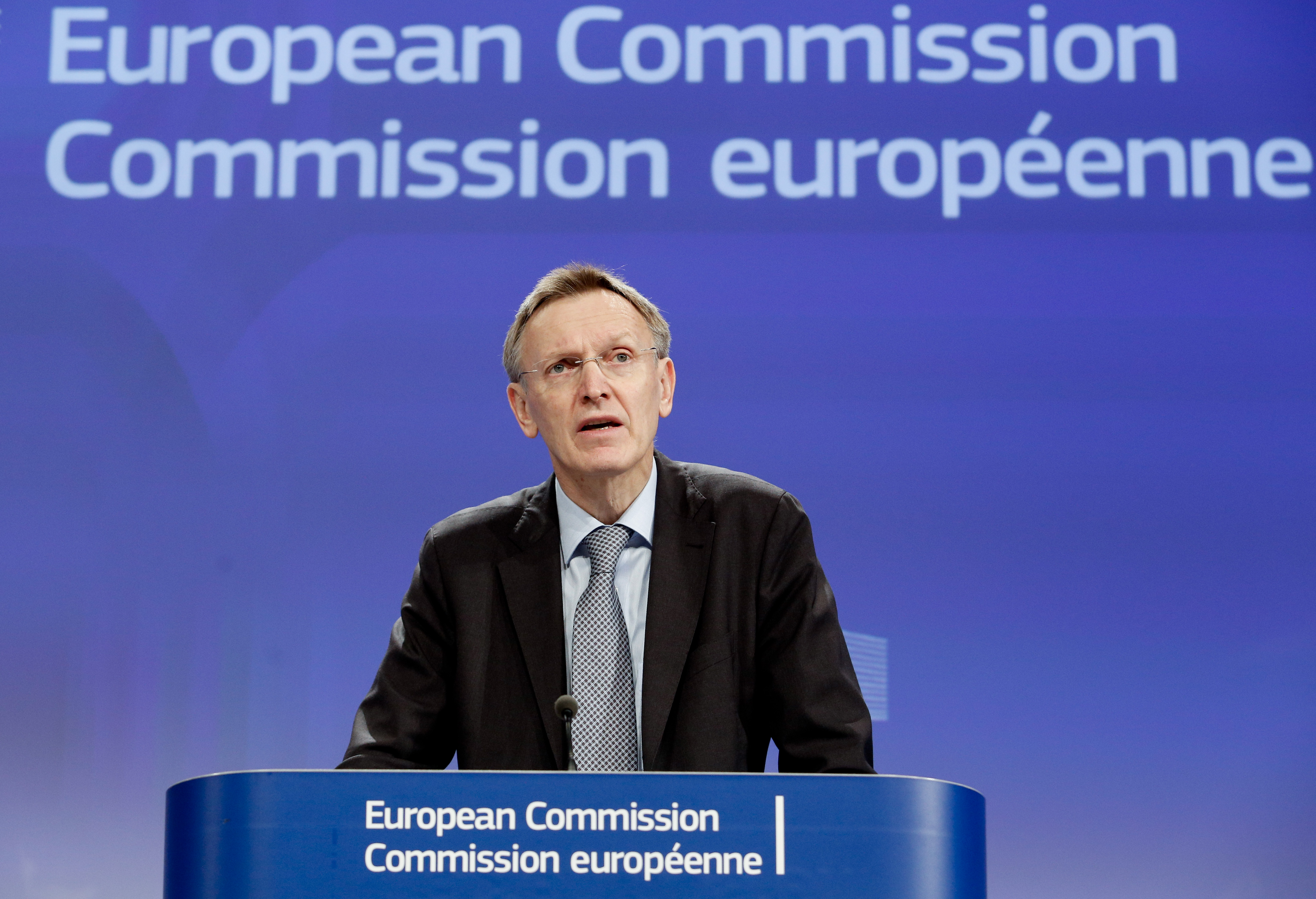 Janez Potočnik, Member of the EC in charge of Environment, gave a press conference on the EU Clean Air Policy Package.